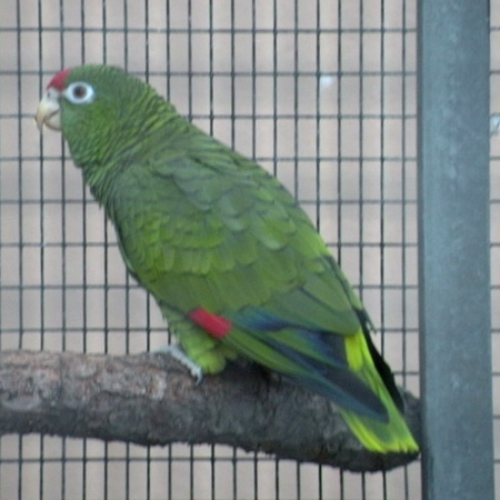 A Tucuman Parrot at Loro Parque, Puerto de la Cruz, Tenerife, Spain.